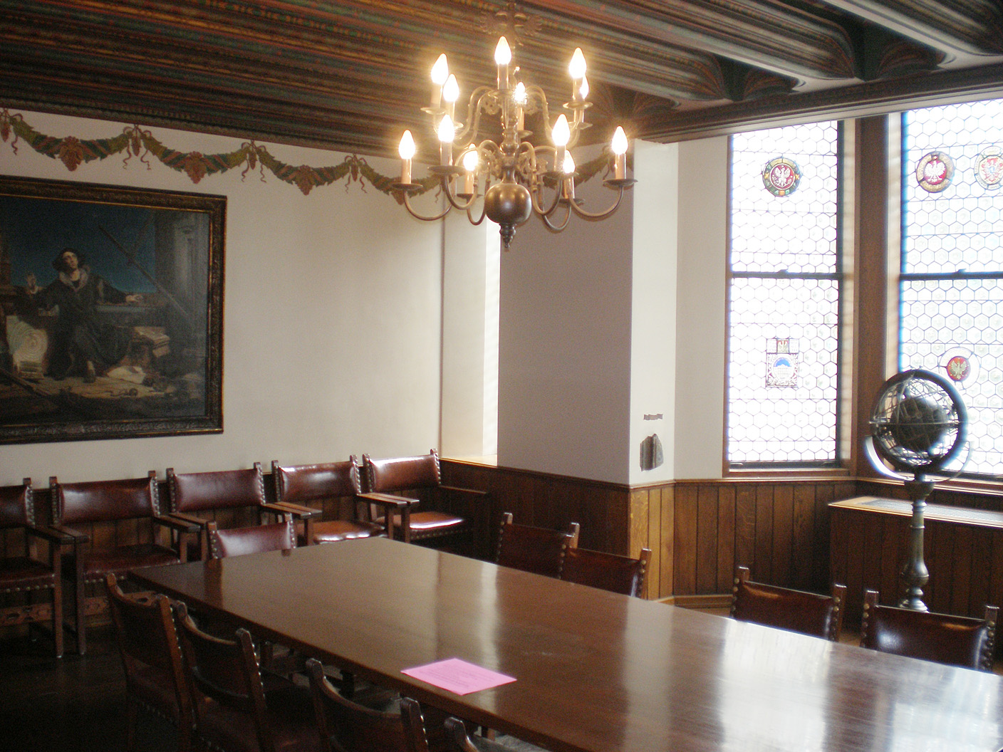 Polish Nationality Room in the Cathedral of Learning at the University of Pittsburgh